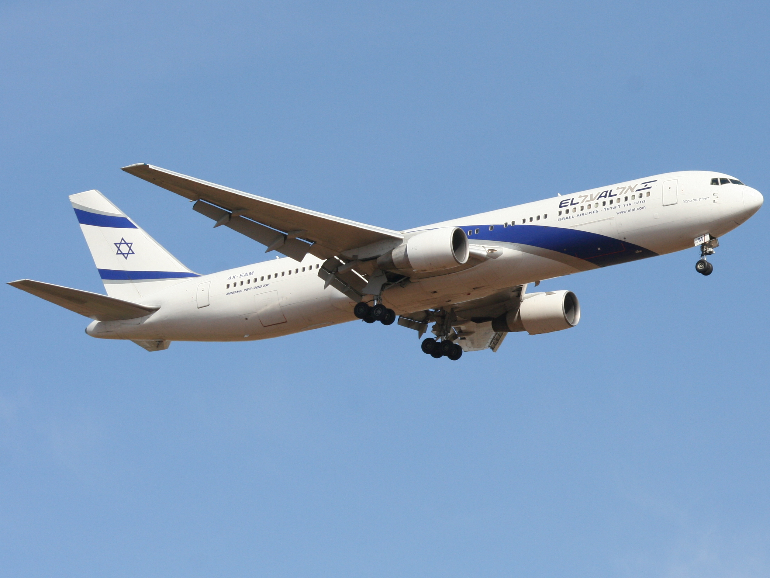 Landing on 21 at Ben Gurion International airport